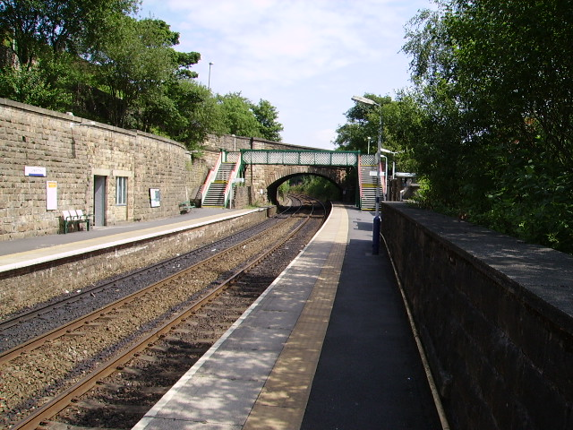 A photograph of Greenfield railway station located in Greater Manchester, England.